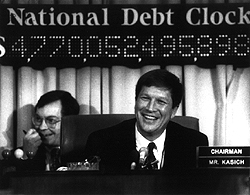 John Kasich as chairman of the House Budget Committee